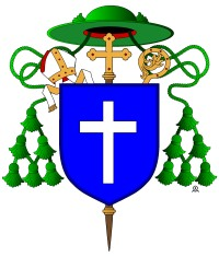 Coat of arms of Josef Frantisek Hudralek, Bishop of Litoměřice